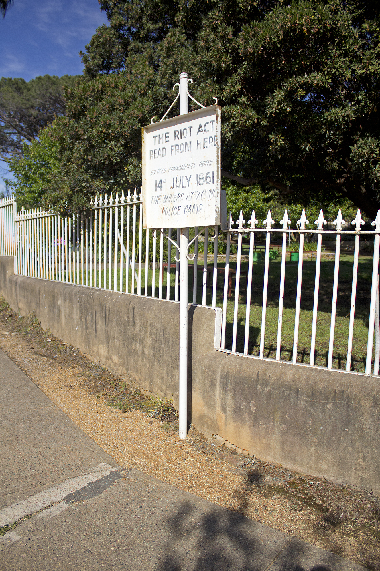 Location where the Riot Act was read in 14 July 1861 on the then site of the Police Camp at Lambing Flats, now Young, New South Wales.